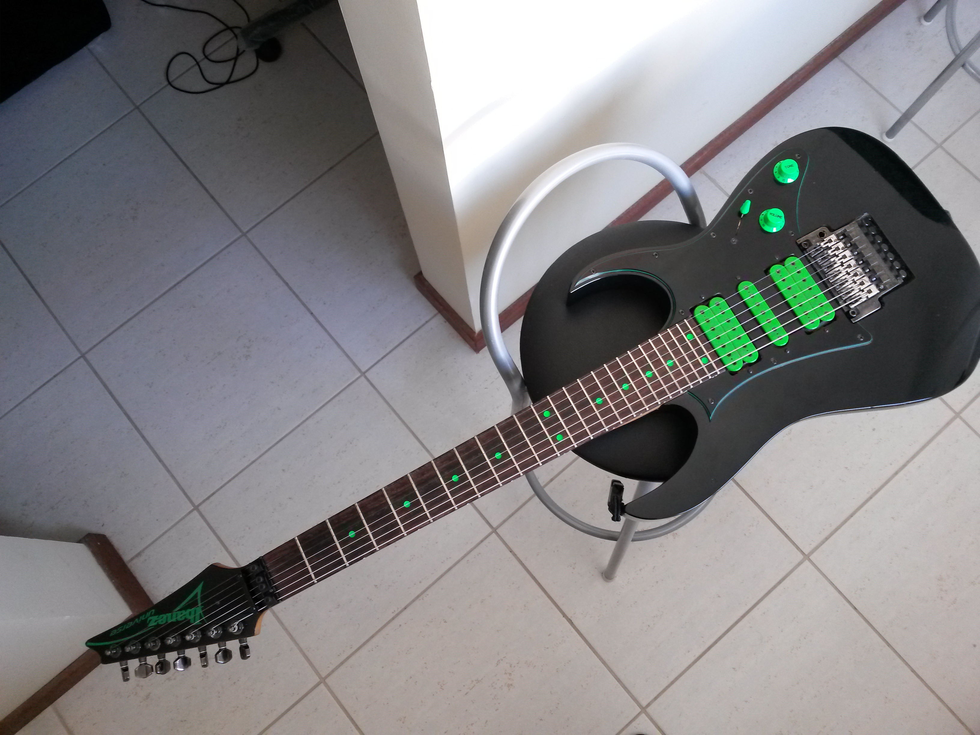 Ibanez Universe UV7BK seven string guitar.